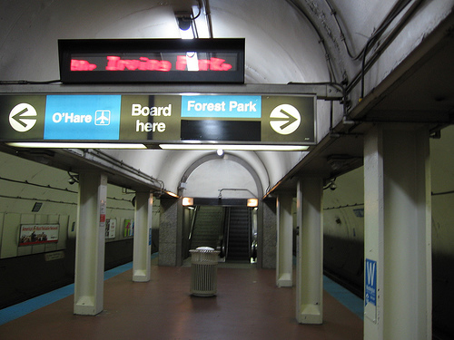 The Washington station on the Chicago Transport Authority's Blue Line in Chicago, Illinois, USA.